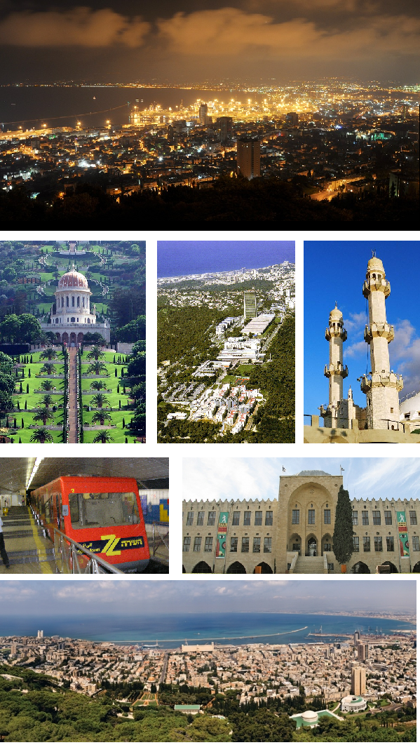 pic haifa